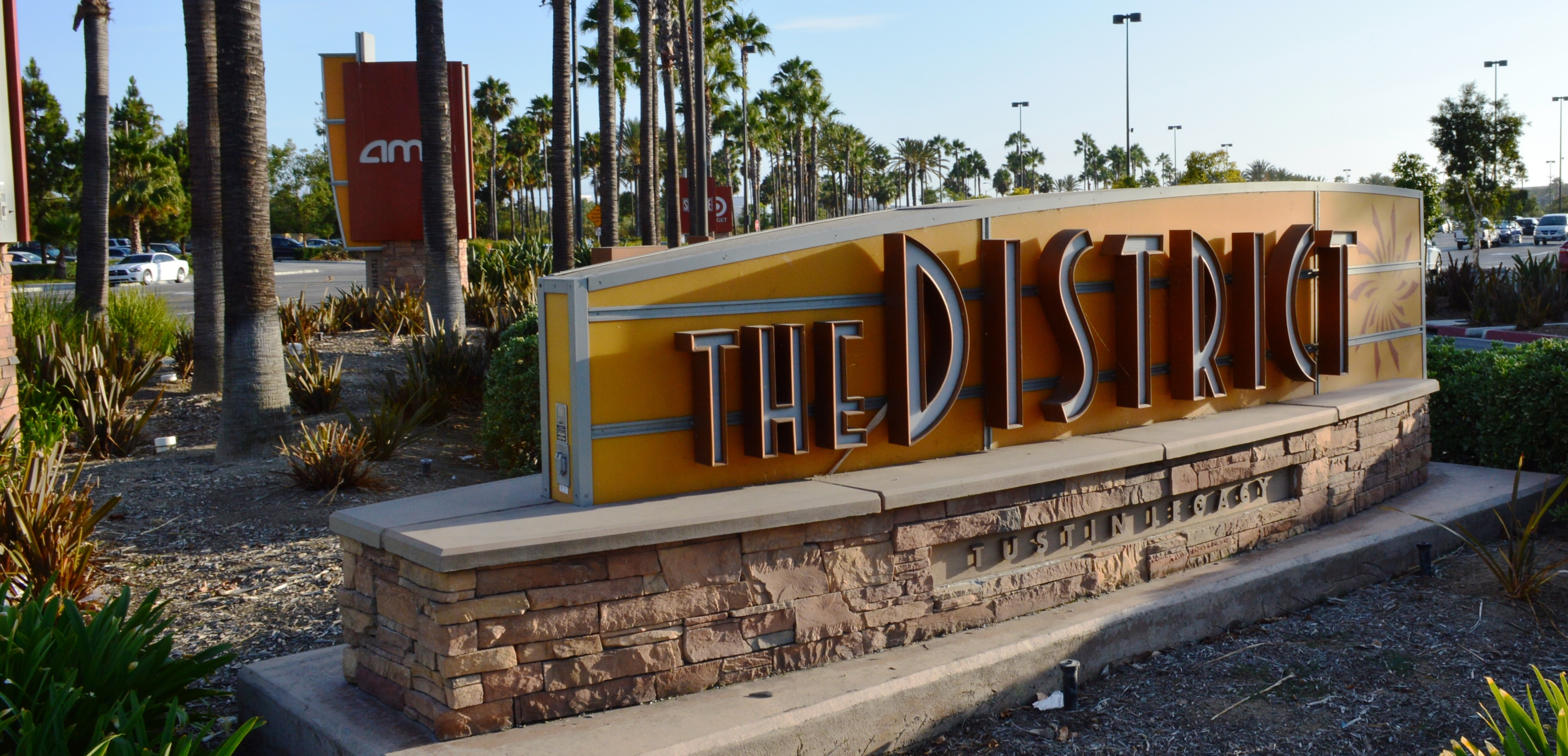 Warner Avenue entrance to The District at Tustin Legacy - Tustin, Orange County, California.